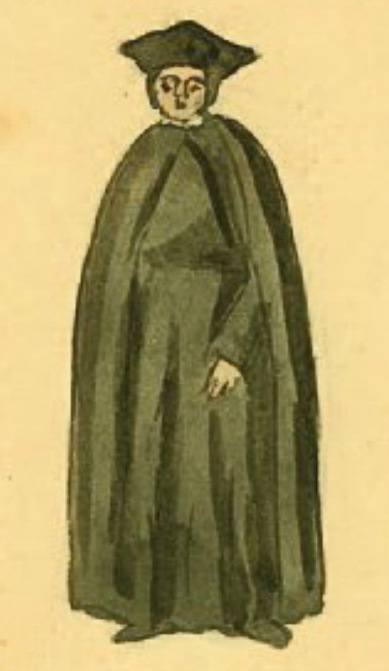 A 17th or 18th-century Alexian monk in Maastricht, the Netherlands. Drawing by Philippe van Gulpen, c 1850.